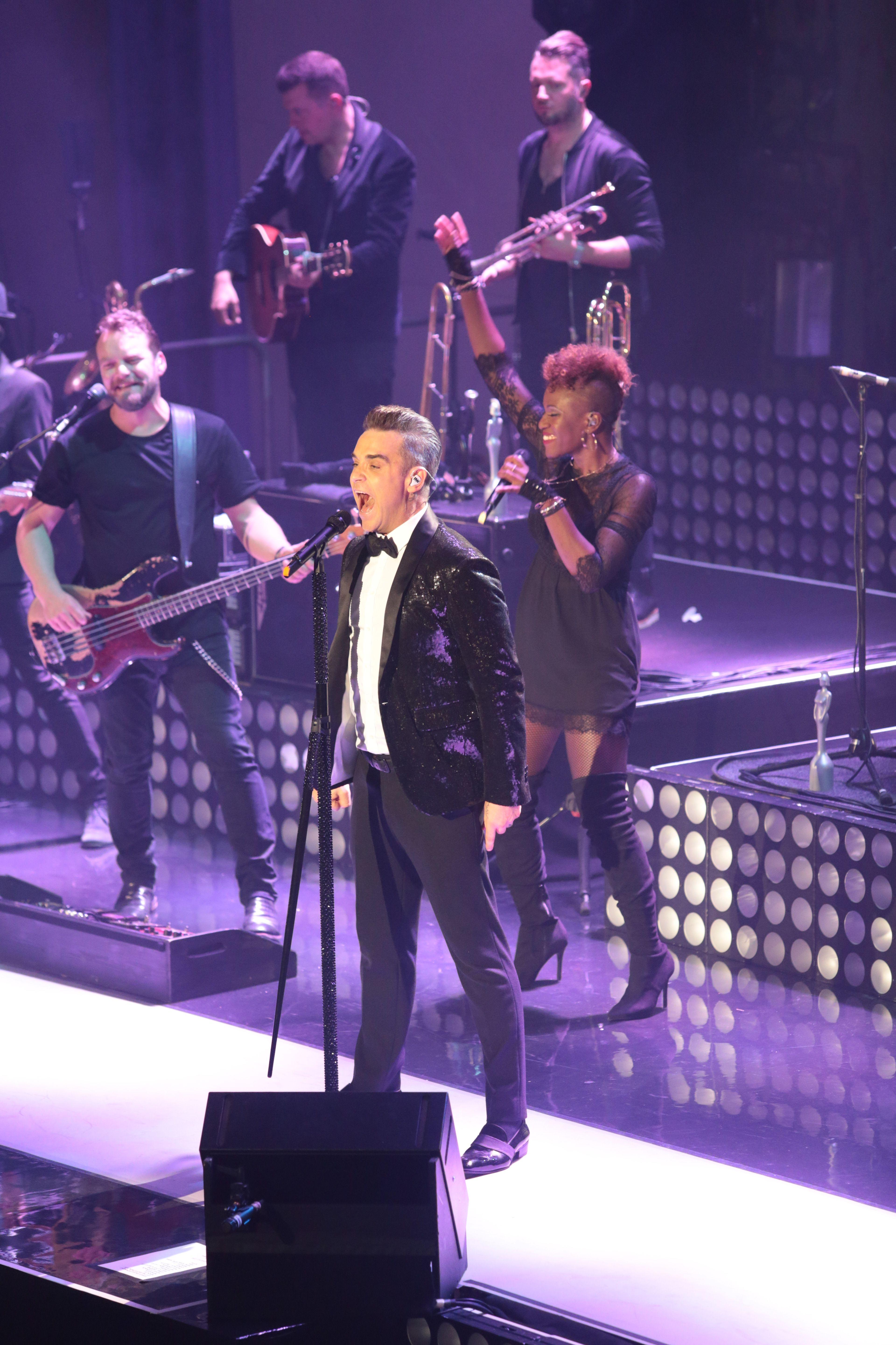 Robbie Williams performing at Troxy